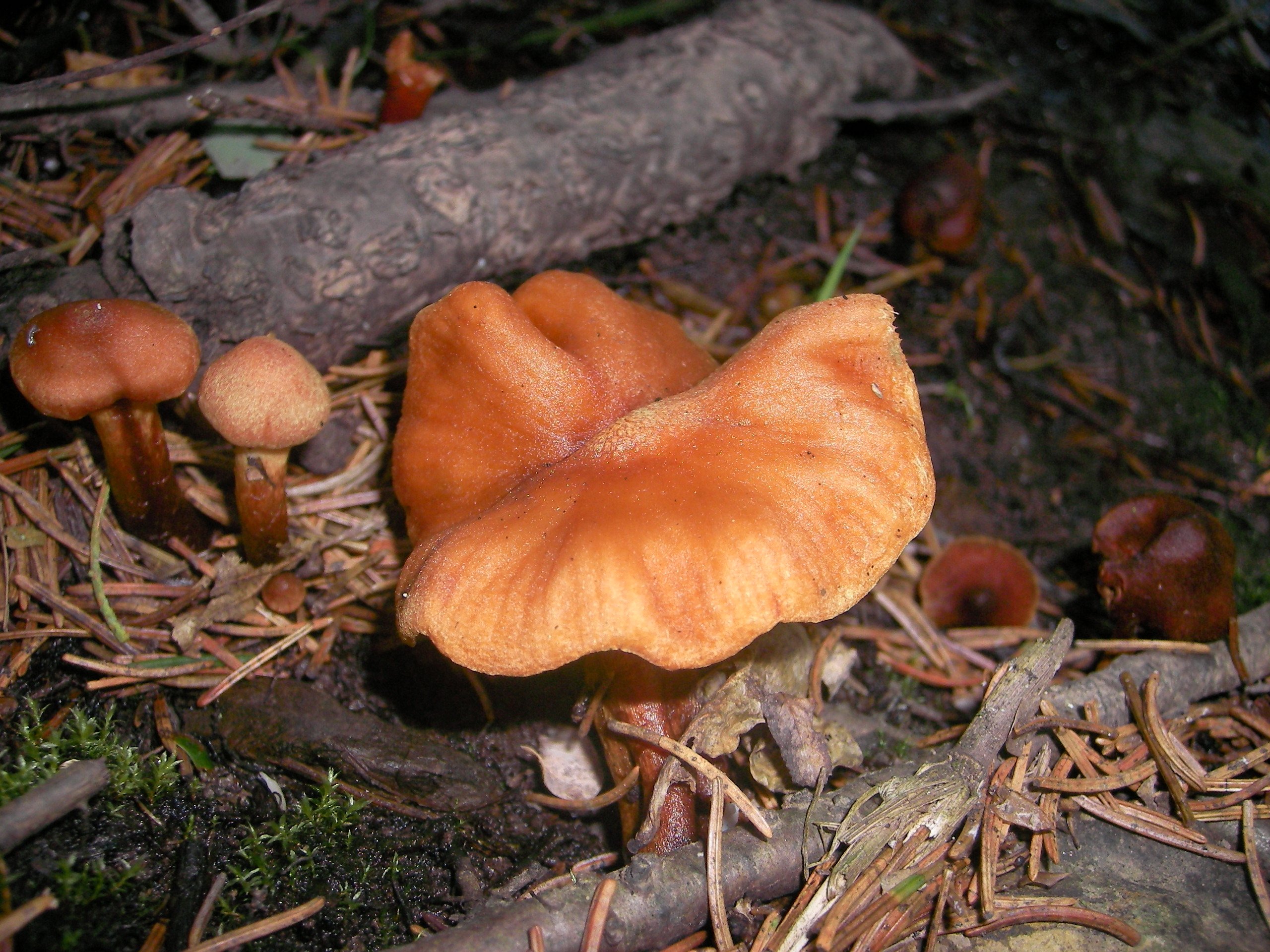 Cortinarius rubellus